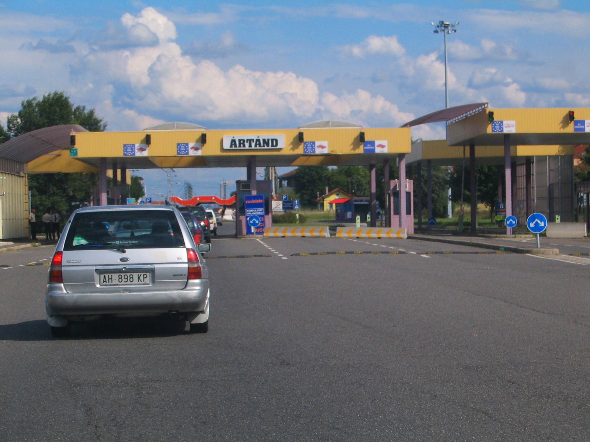 Border crossing, Ártánd (Hungary) - Borș (Romania), to Romania on the Hungarian side